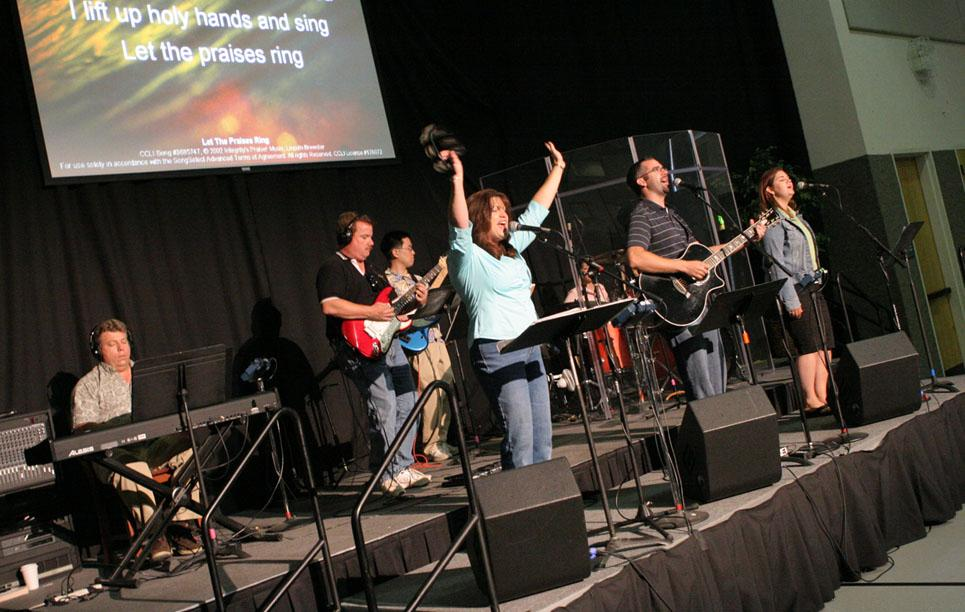 A worship team leading a contemporary worship service in San Francisco Bay Area.